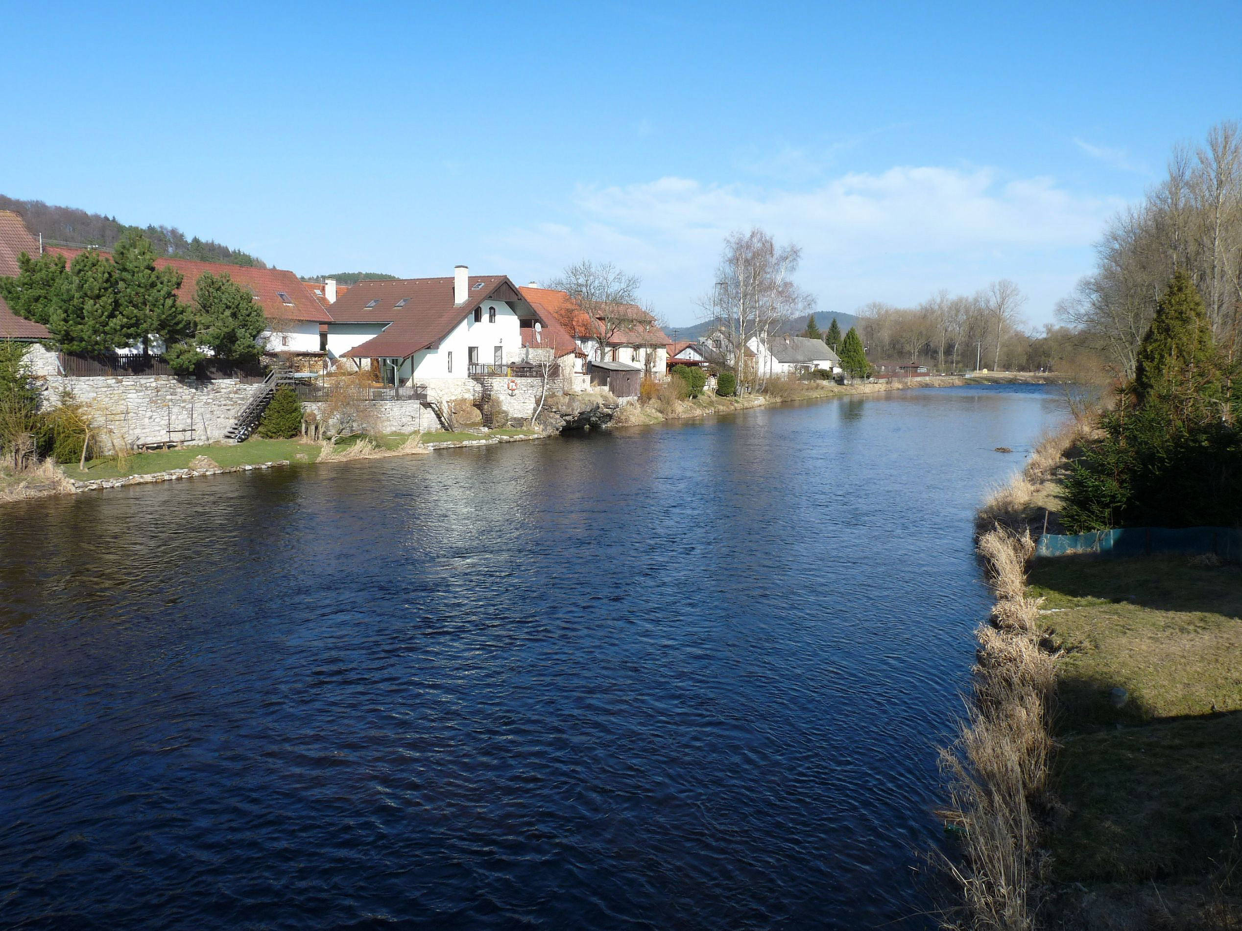 The Otava River in the village of Čepice, Klatovy District, Czech Republic